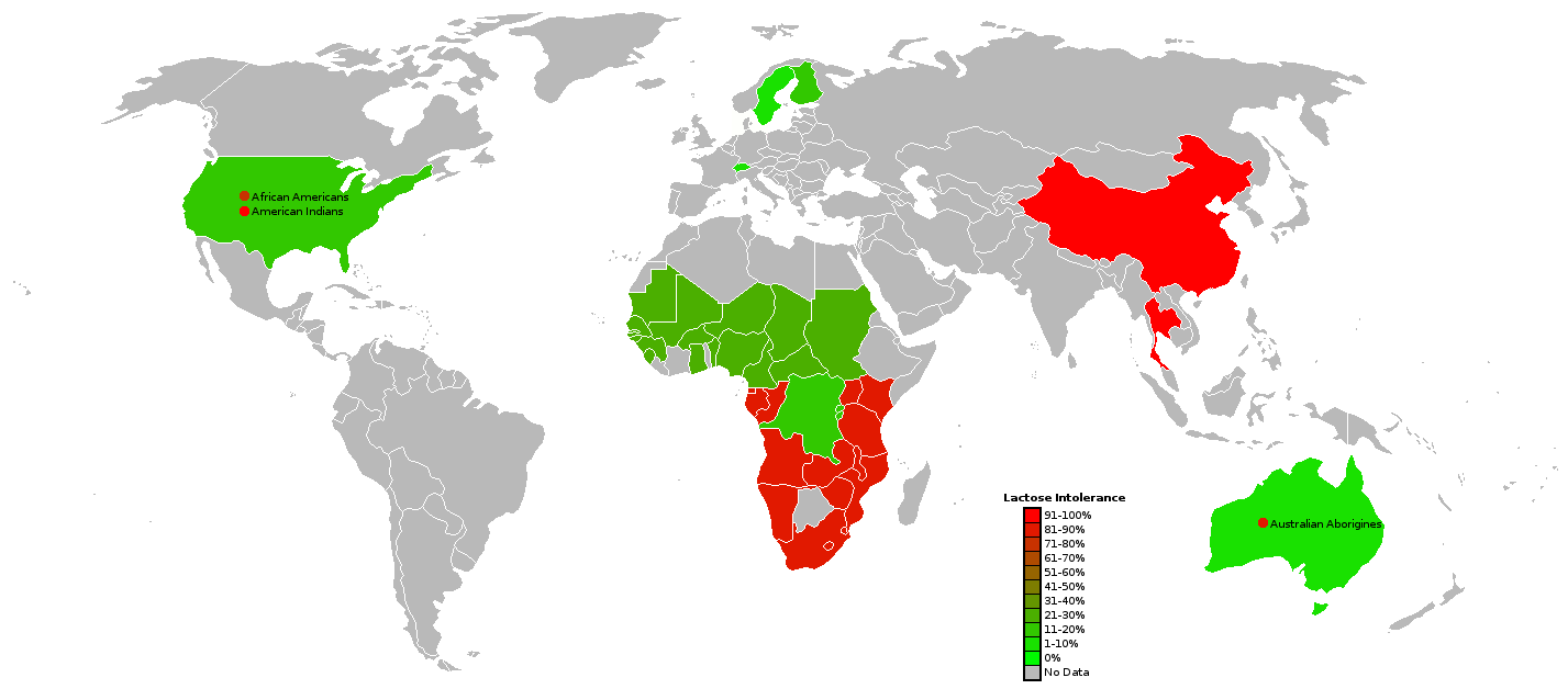 Lactose Intolerance by region of the world (African countries are only a rough guess).